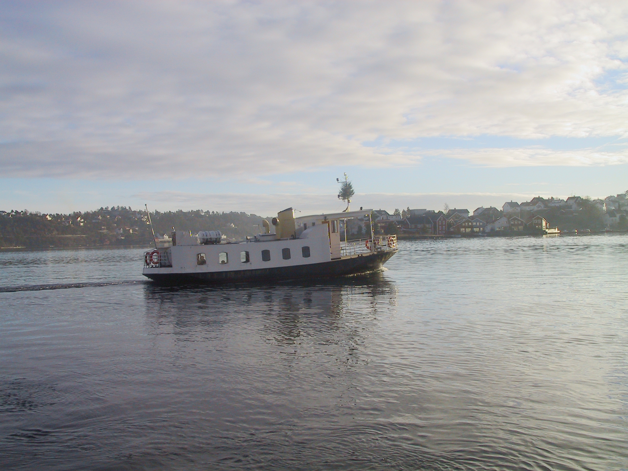 Arendal harbour, local passenger ferry, named Kolbjørn. It is Christmas time, remark the Christmas tree on the ferry.